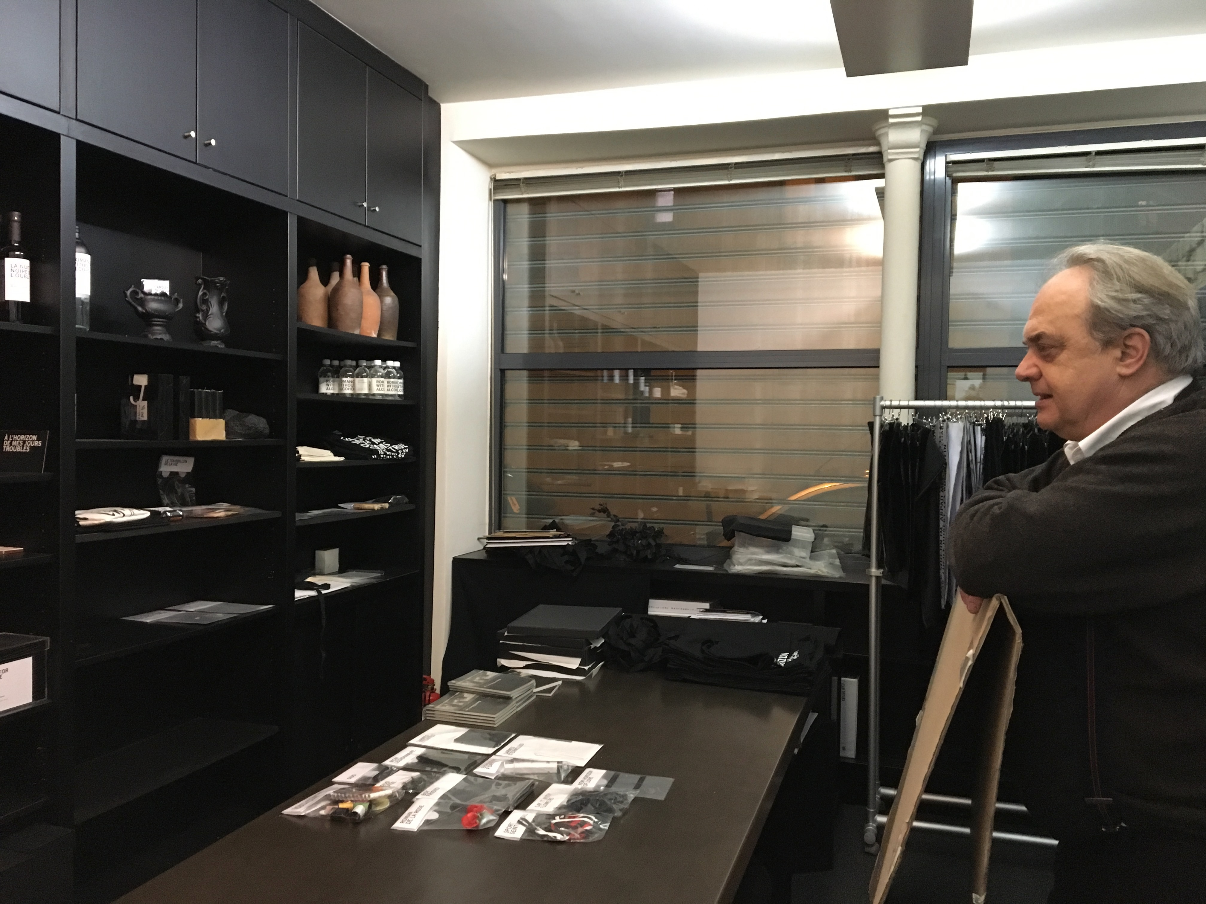 Jean Loup Pivin and N’Goné Fall, Revue Noire in “Usmaradio” for the radio program “Scuola di pensiero” by Iolanda Pensa, recorded at Revue Noire, Paris, January 2018, cc by-sa all.